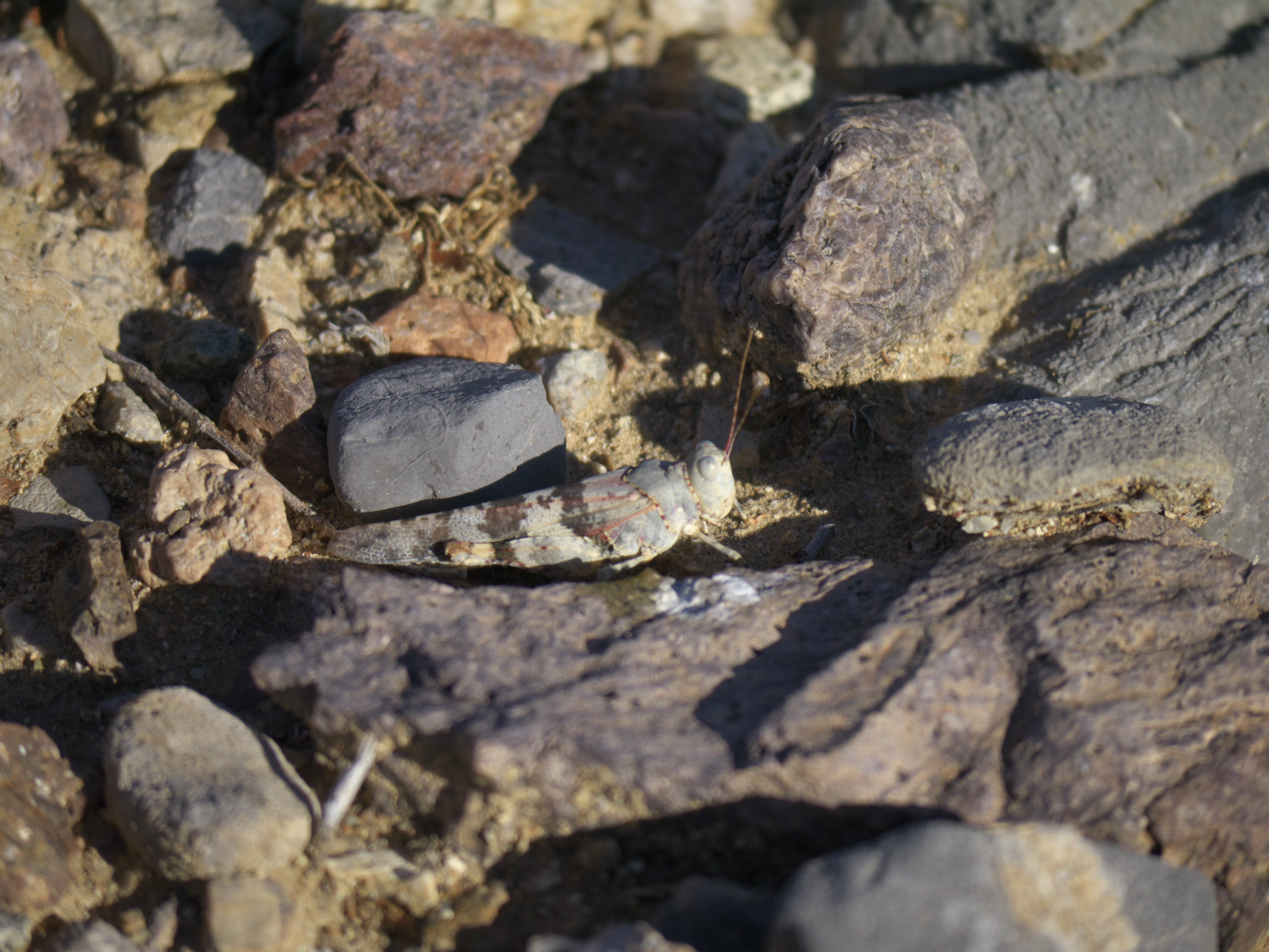 Trimerotropis californica, Strenuous Grasshopper, ID Confidence: 98